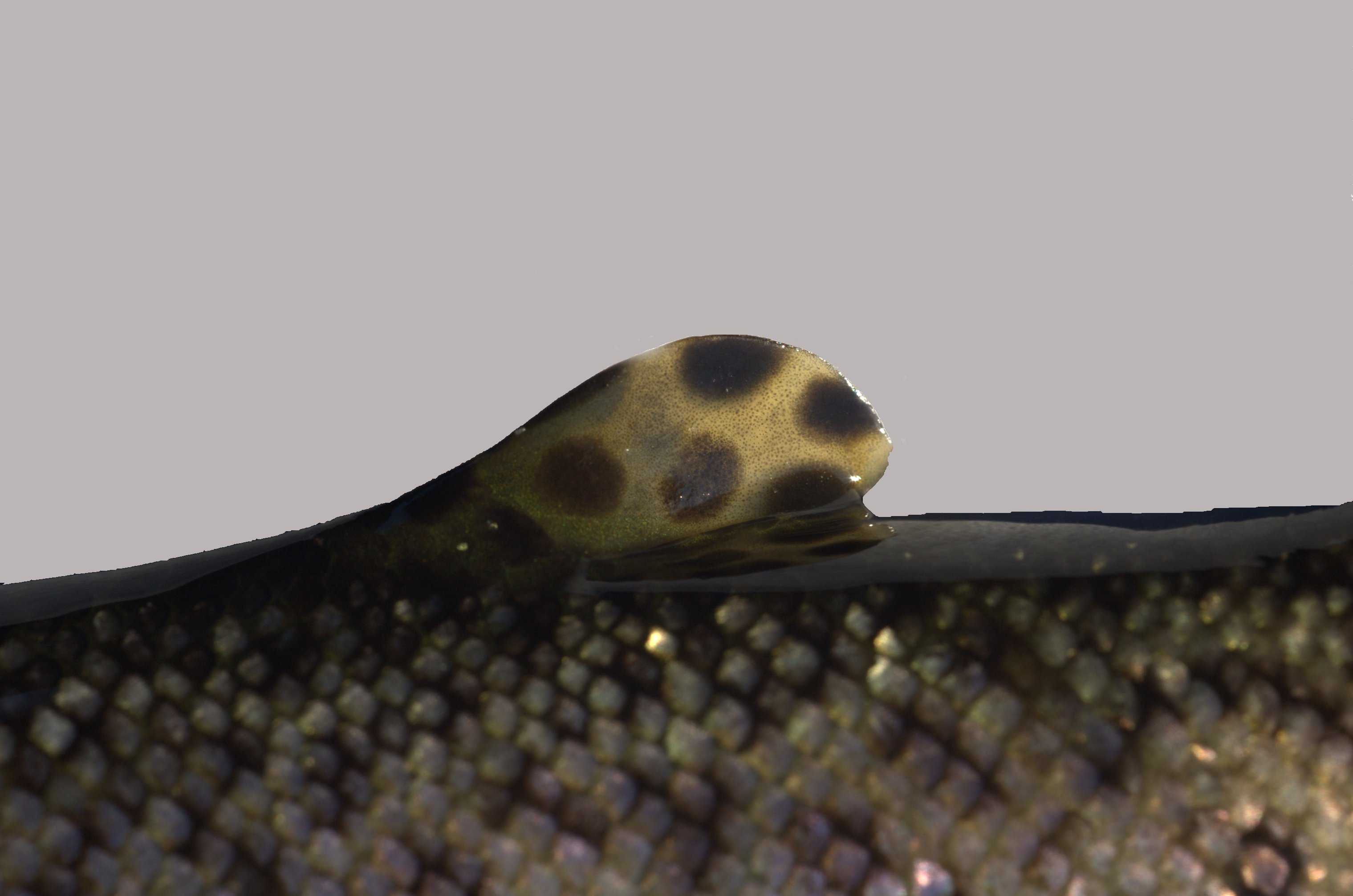 adipose fin of a rainbow trout (Oncorhynchus mykiss)